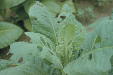 Heliothis virescens_damage